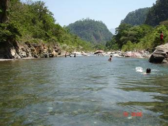 zapotitlan, atzalan, veracruz